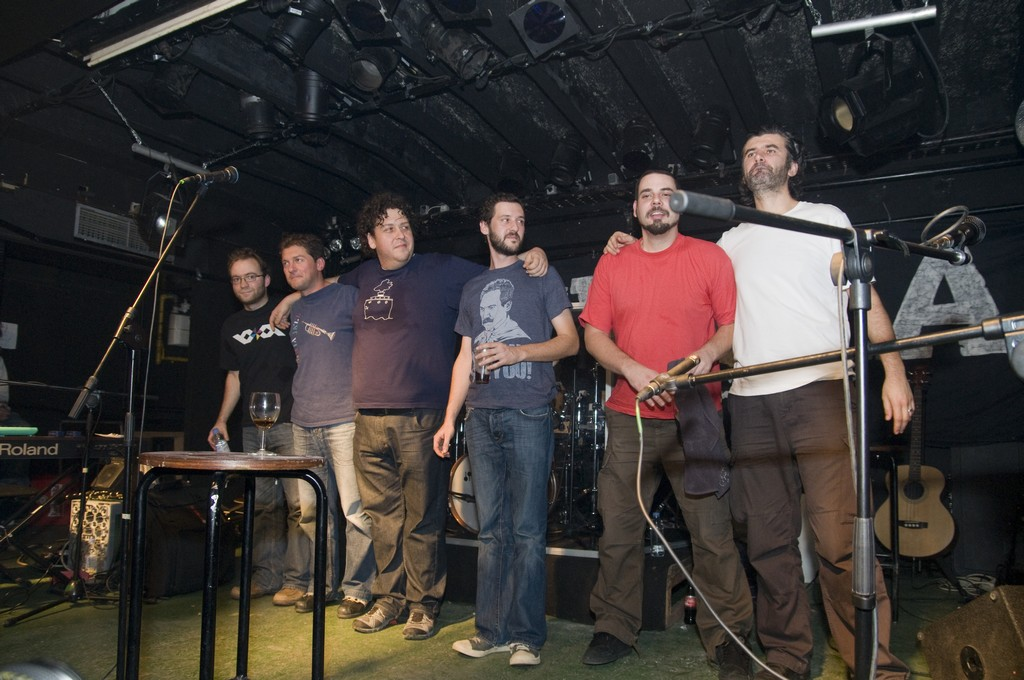 Members of the Croatian hip-hop band The Beat Fleet in concert, taken on 7 November 2009 at the Mocvara club in Zagreb